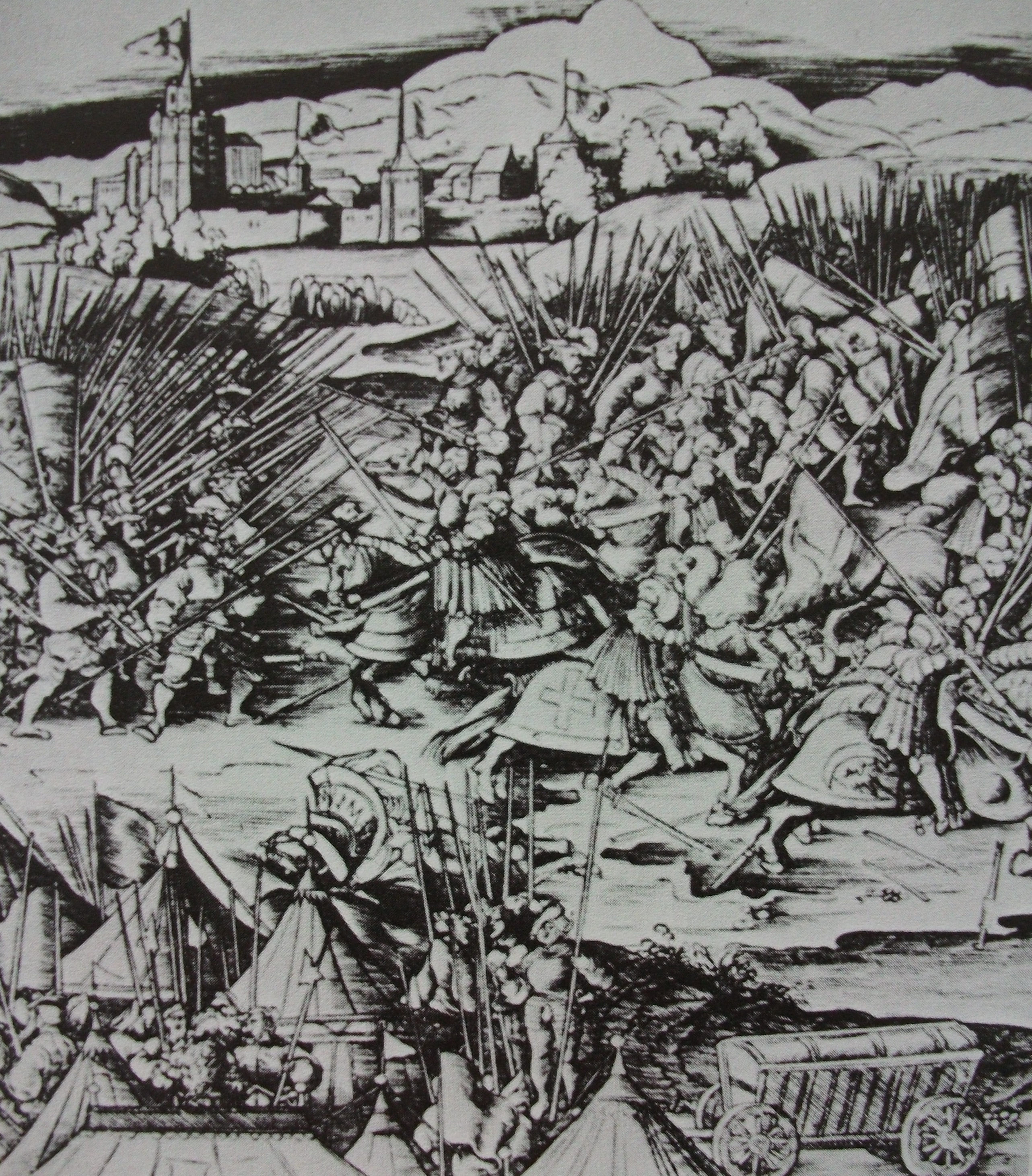 Battle of Novara (1513).